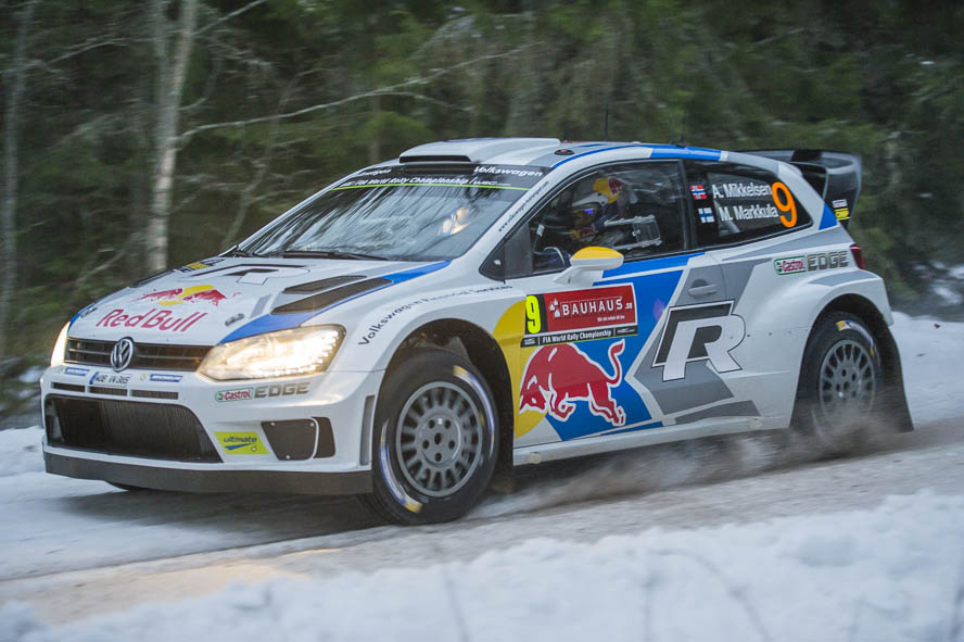 Rally Sweden 2014 Andreas Mikkelsen,Mikko Markkula,Motorsport,Rally,Rally Sweden,Rallye,Rallye Schweden,Shakedown,VW Polo R WRC,Volkswagen Motorsport II,Volkswagen Polo R WRC